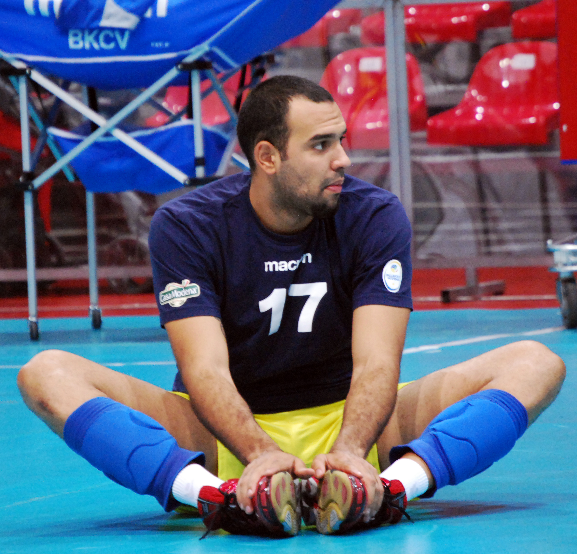 I took this pic during a volleyball match in Piacenza.